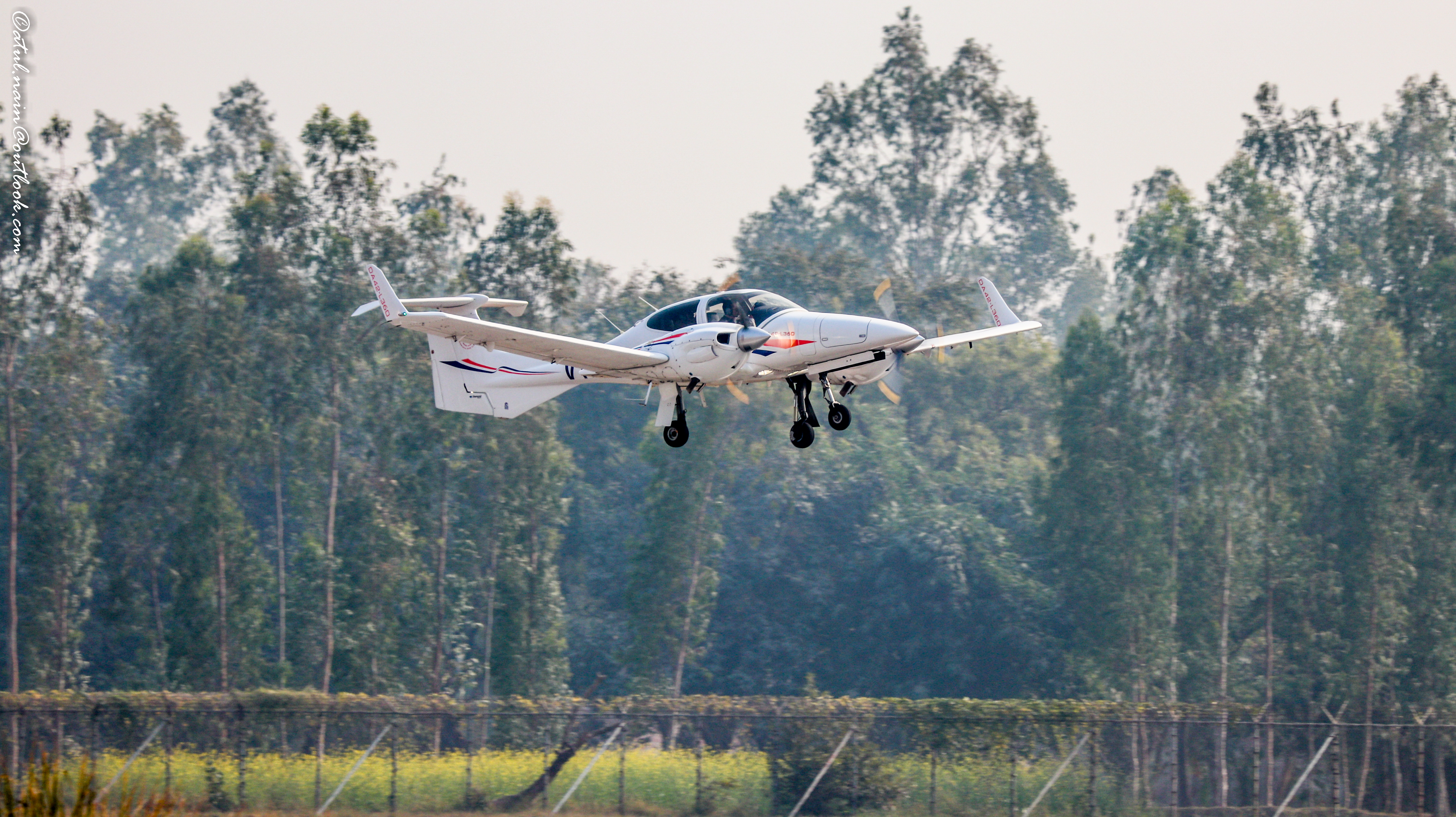 One of the Diamond DA42s that IGRUA operates, taking off.